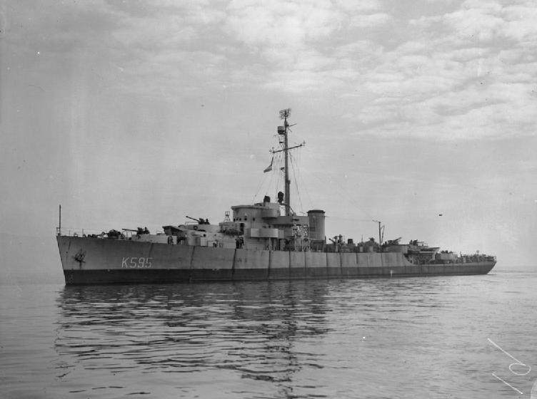 Photograph of British Colony class frigate HMS Tortola at Greenock.